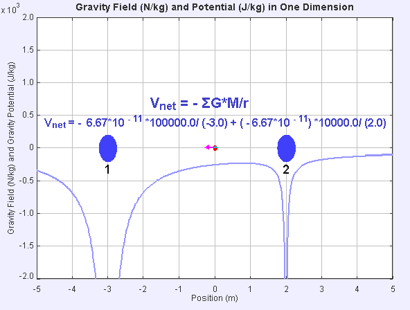 U = − m 1 ∑ G M r {\displaystyle U=-m_{1}\sum G{\frac {M}{r } in this case, M_1 = 100 000 kg and r_1 = -3 m , M_2 = 10 000 kg and r_2 = +2 m. The potential energy of the test mass (red) is given by the formula